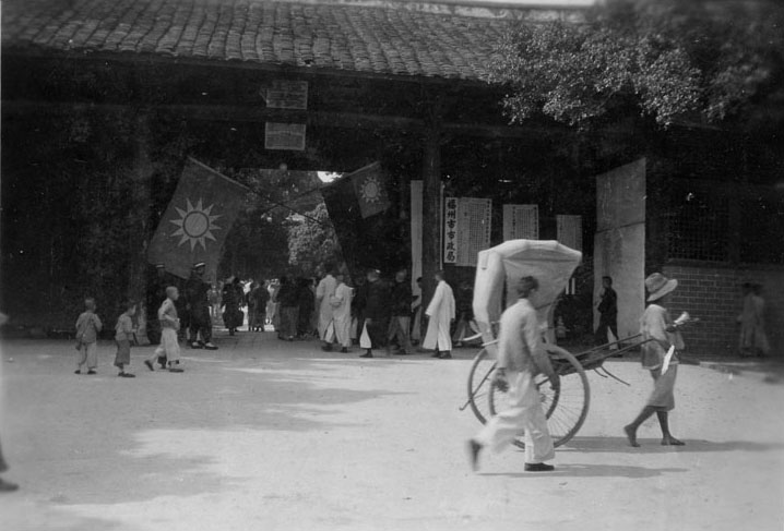 Foochow Municipal Government